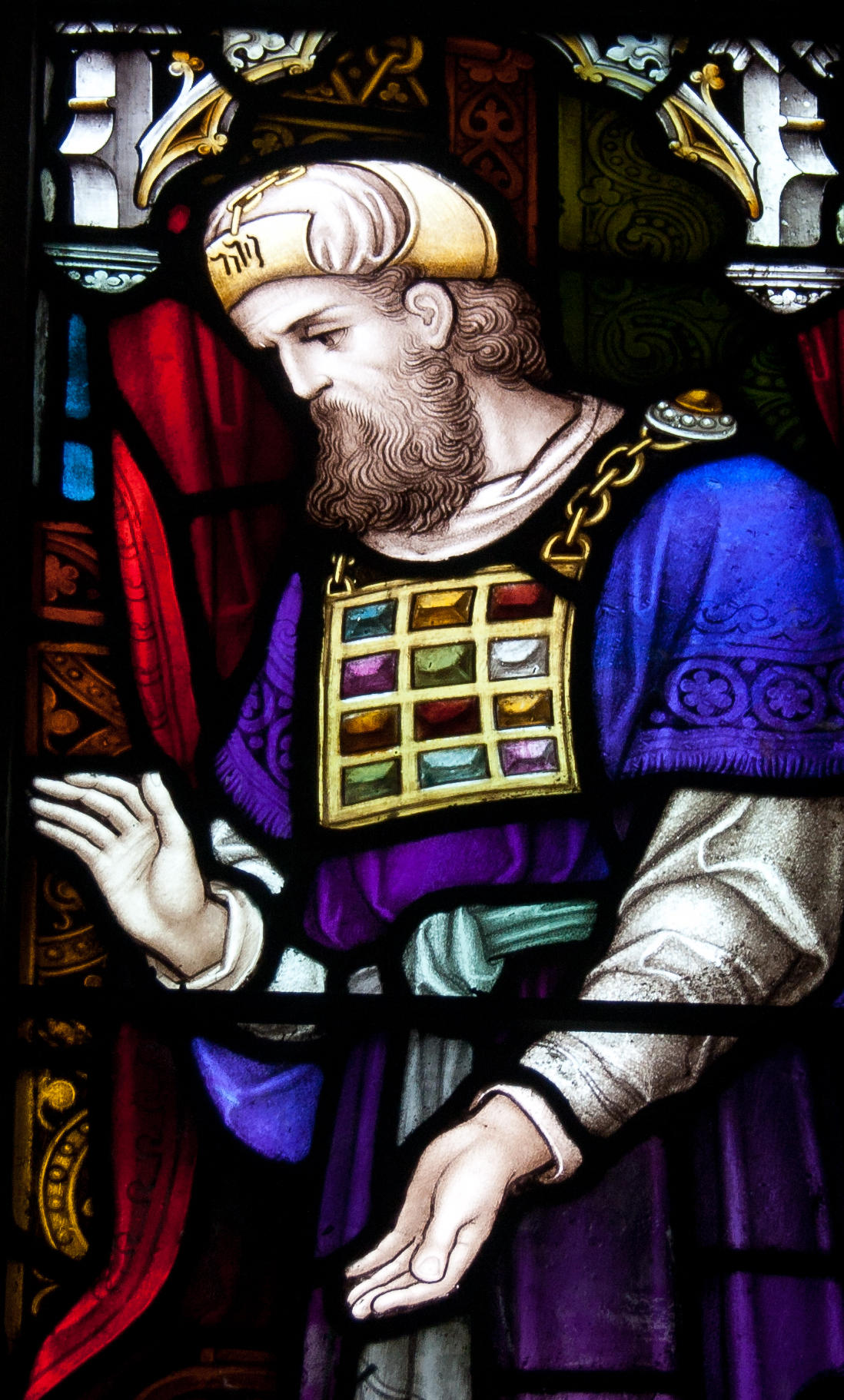 Detail of the right part of The Presentation of the Blessed Virgin ensemble, depicting the Kohen Gadol (High Priest of the Temple of Jerusalem) in his sacred vestments according to Exodus 28.